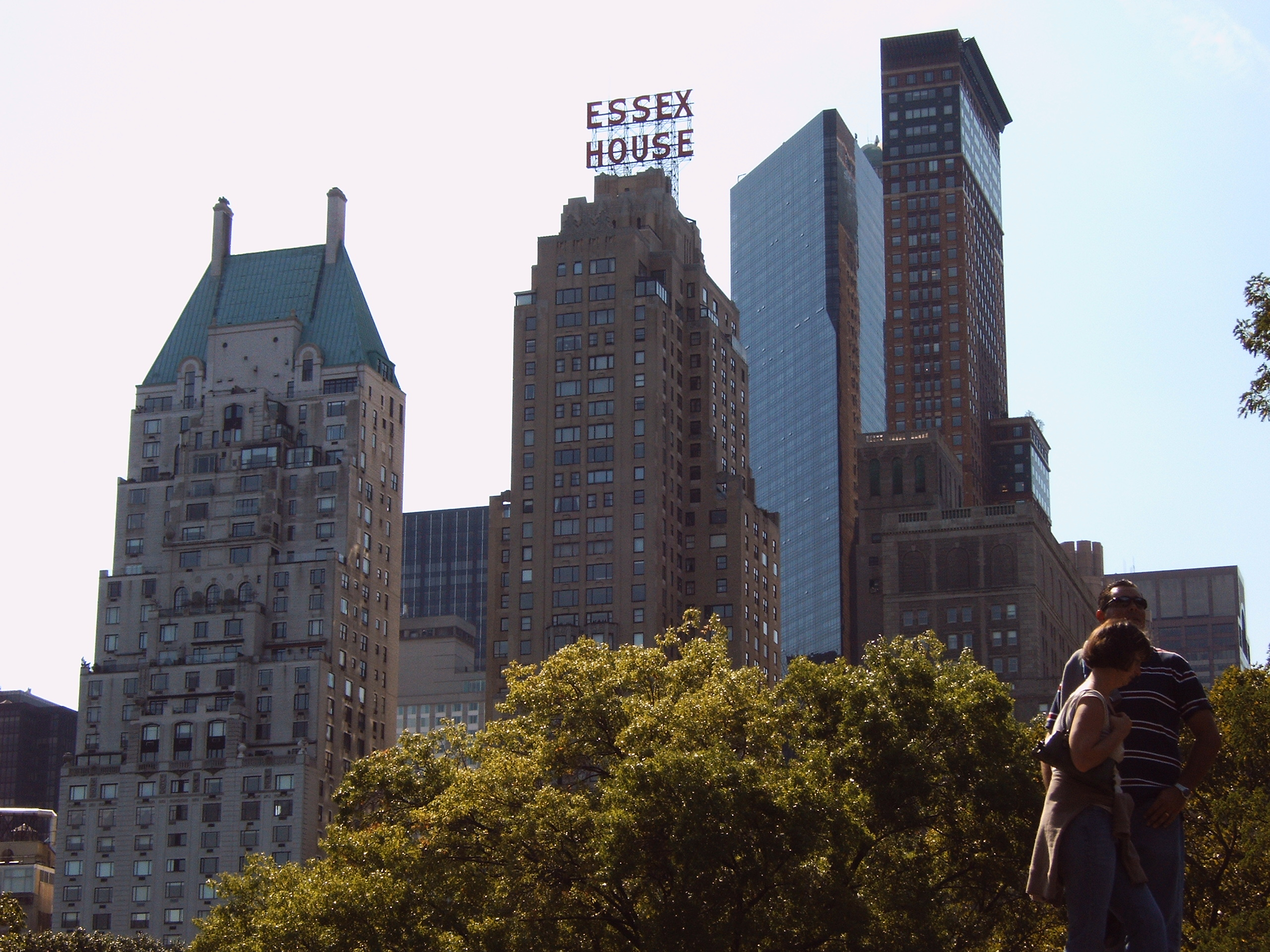 A random collection of skyscrapers visible from Central Park. Essex House is another example of the many 1930s skyscrapers in Art Déco style.